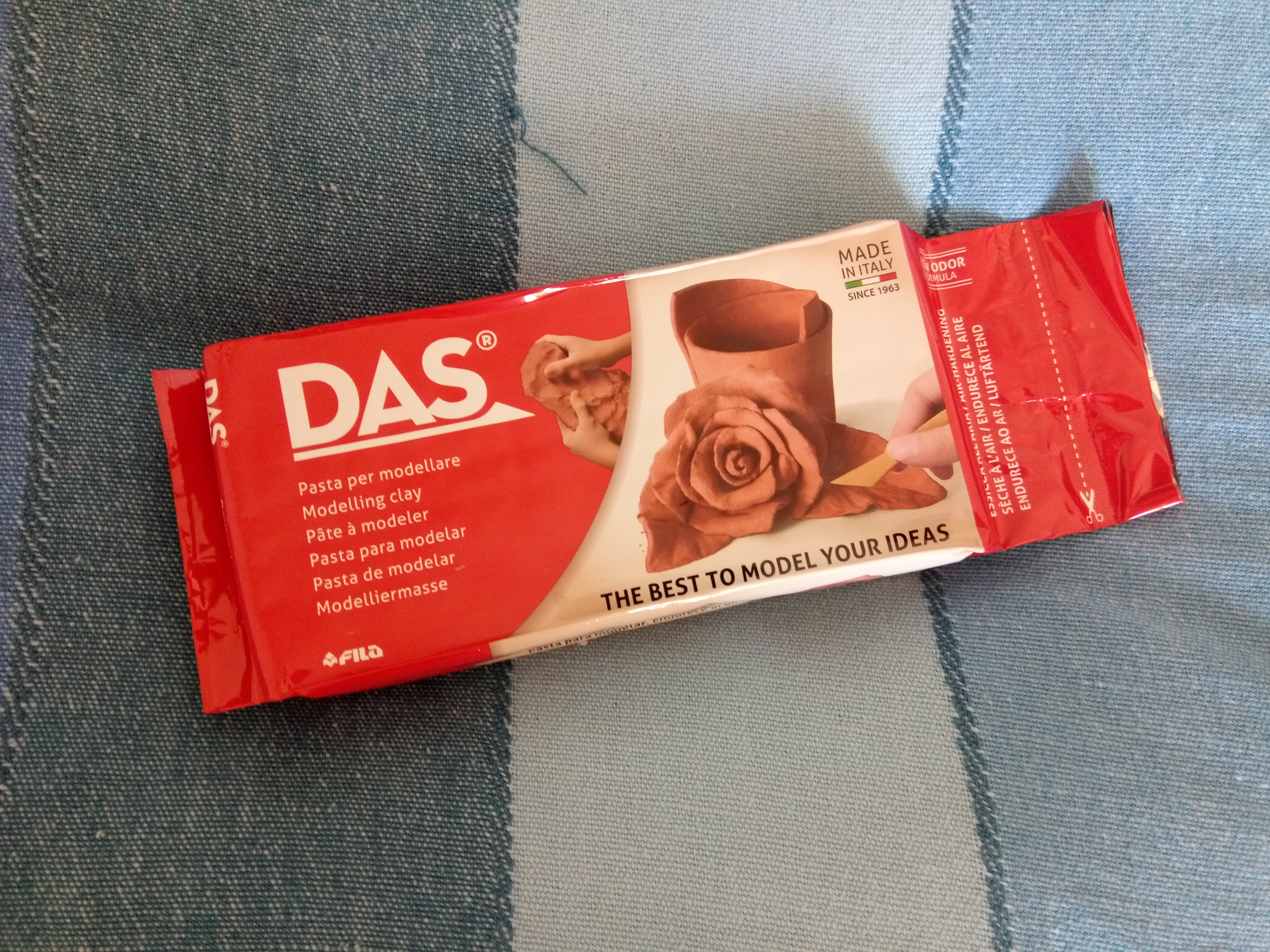 A terracotta-coloured pack of DAS modelling clay, produced in 2019 by FILA S.p.A.